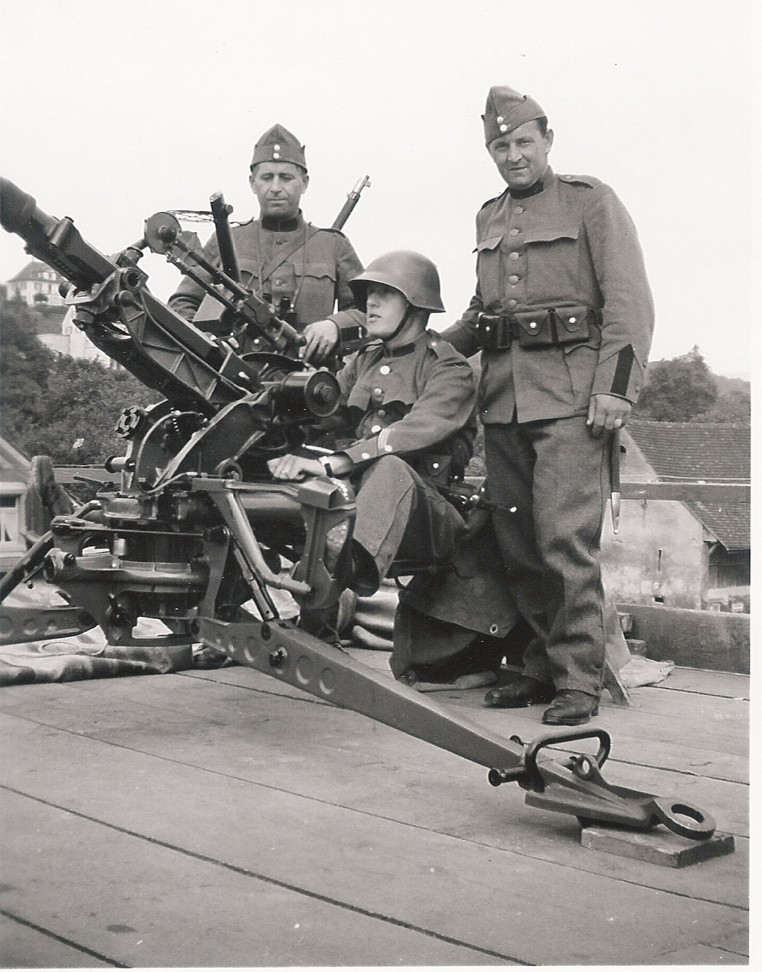 Fliegerabwehr Zweiter Weltkrieg, Mellingen AG, Schweiz: auf der Zinne des Restaurants Güggel zum Schutz der nahen Reussbrücke